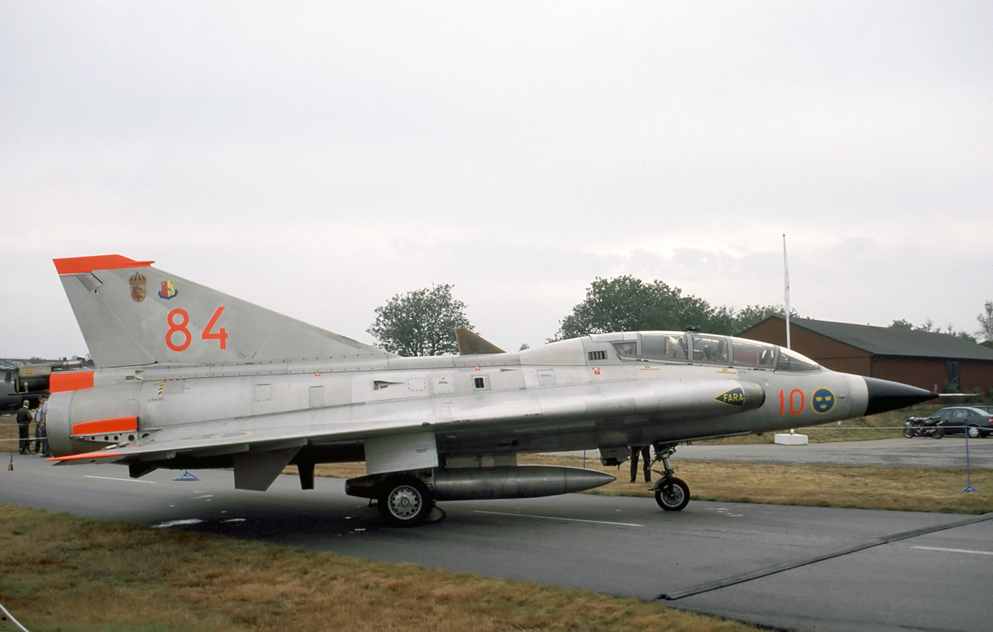 A foggy start of the day. I don't know why I didn't wait for the sun to appear. But I'm still very happy with this Saab Draken, as it's the only Swedish Sk35C twoseater in my collection. All remaining Drakens were based at Ängelholm.